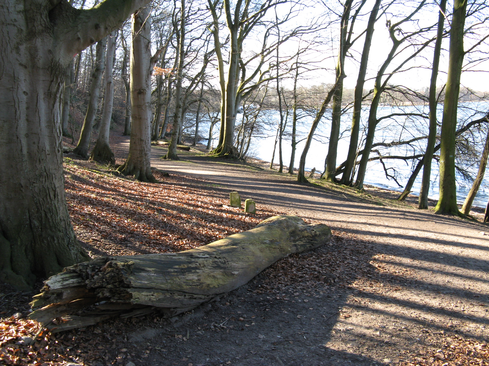 Shore of Schwerin lake in Raben Steinfeld, Mecklenburg-Vorpommern, Germany